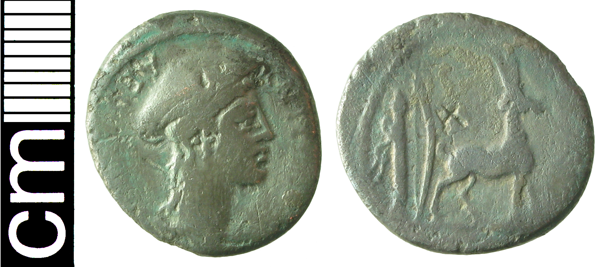 A very worn 1st-century BC Roman silver Republican denarius, 'CN·PLANCIVS - AED·CVR·S·C' (Cretan goat), struck by the moneyer Cn. Plancius at Rome in 55 BC (RRC 432/1). This coin has an 'X'-shaped control mark stamped at the centre of the reverse.